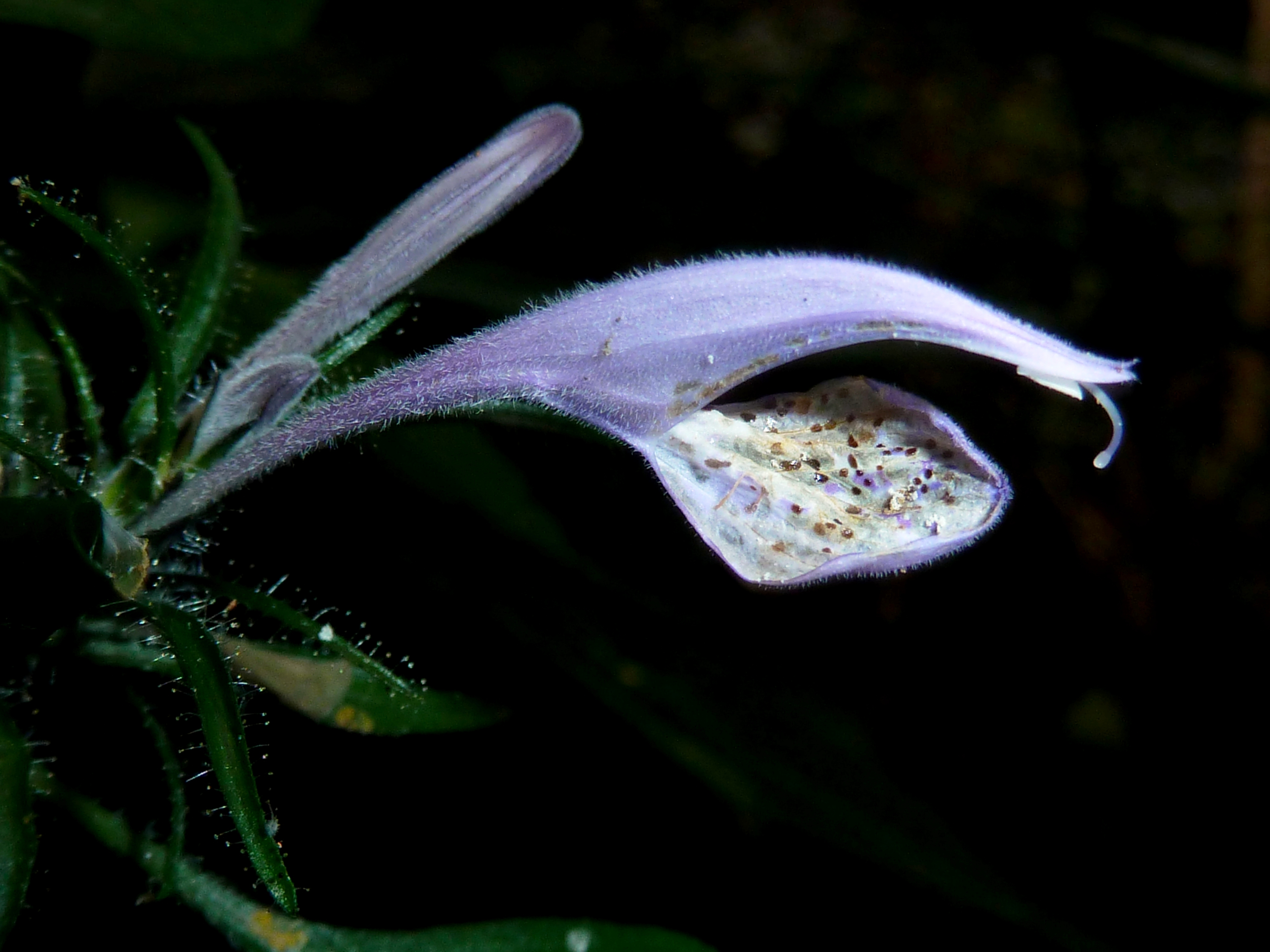 Flower of Isoglossa cooperi in the Krantzkloof Nature Reserve, KwaZulu-Natal